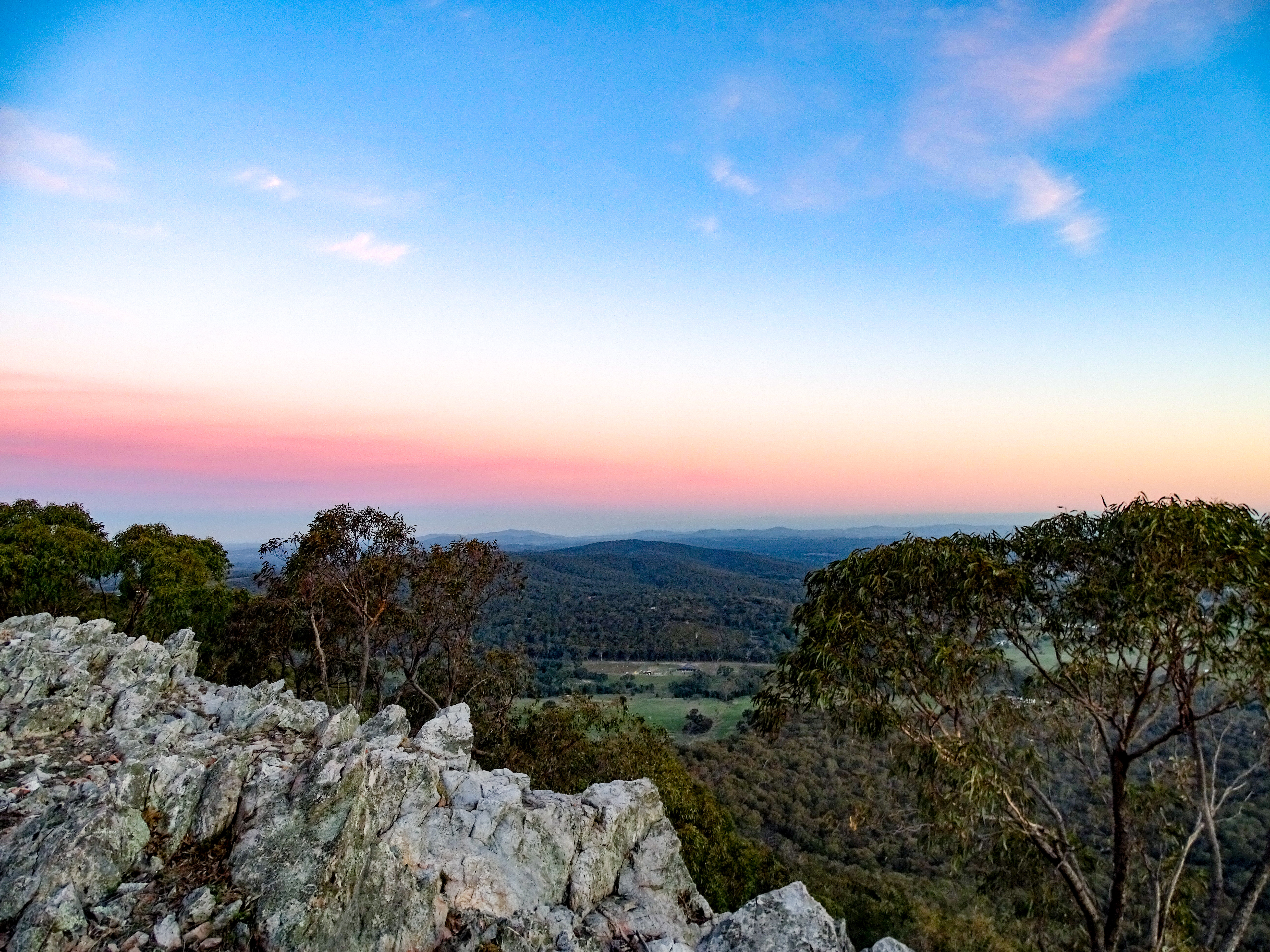 View from Mt Ida lookout in the Heathcote-Graytown National Park